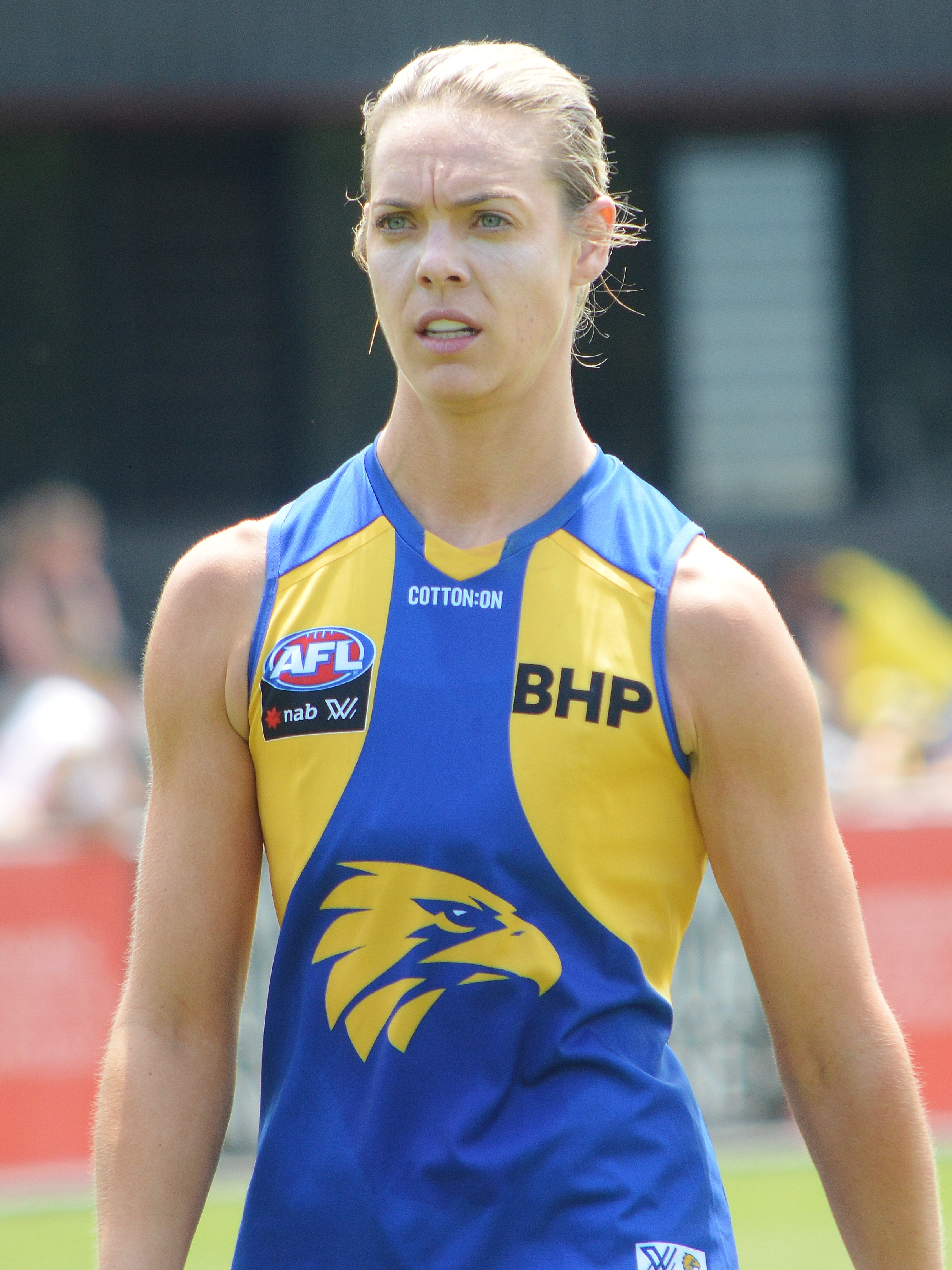 Talia Radan with West Coast during a pre-season AFL Women's match against Richmond at Punt Road Oval in January 2020.